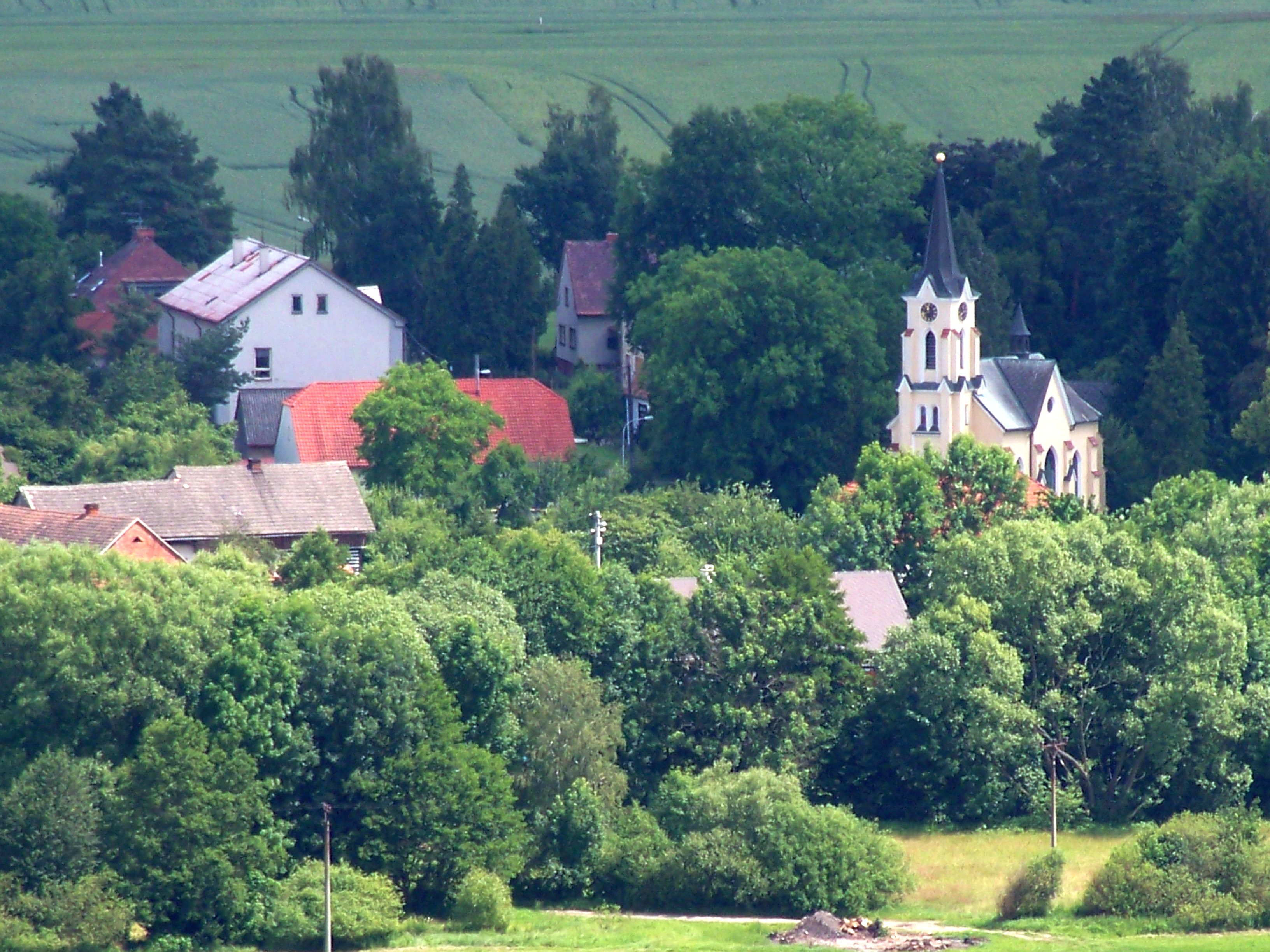 A view of Žďár from Příhrazy Rocks (Žďár, Mladá Boleslav District, Central Bohemian Region, the Czech Republic) - Google Maps - Google Earth